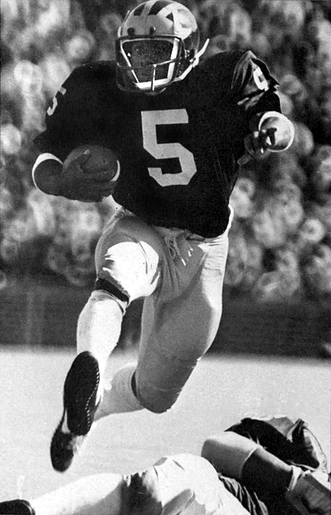 Photograph of Gordon Bell